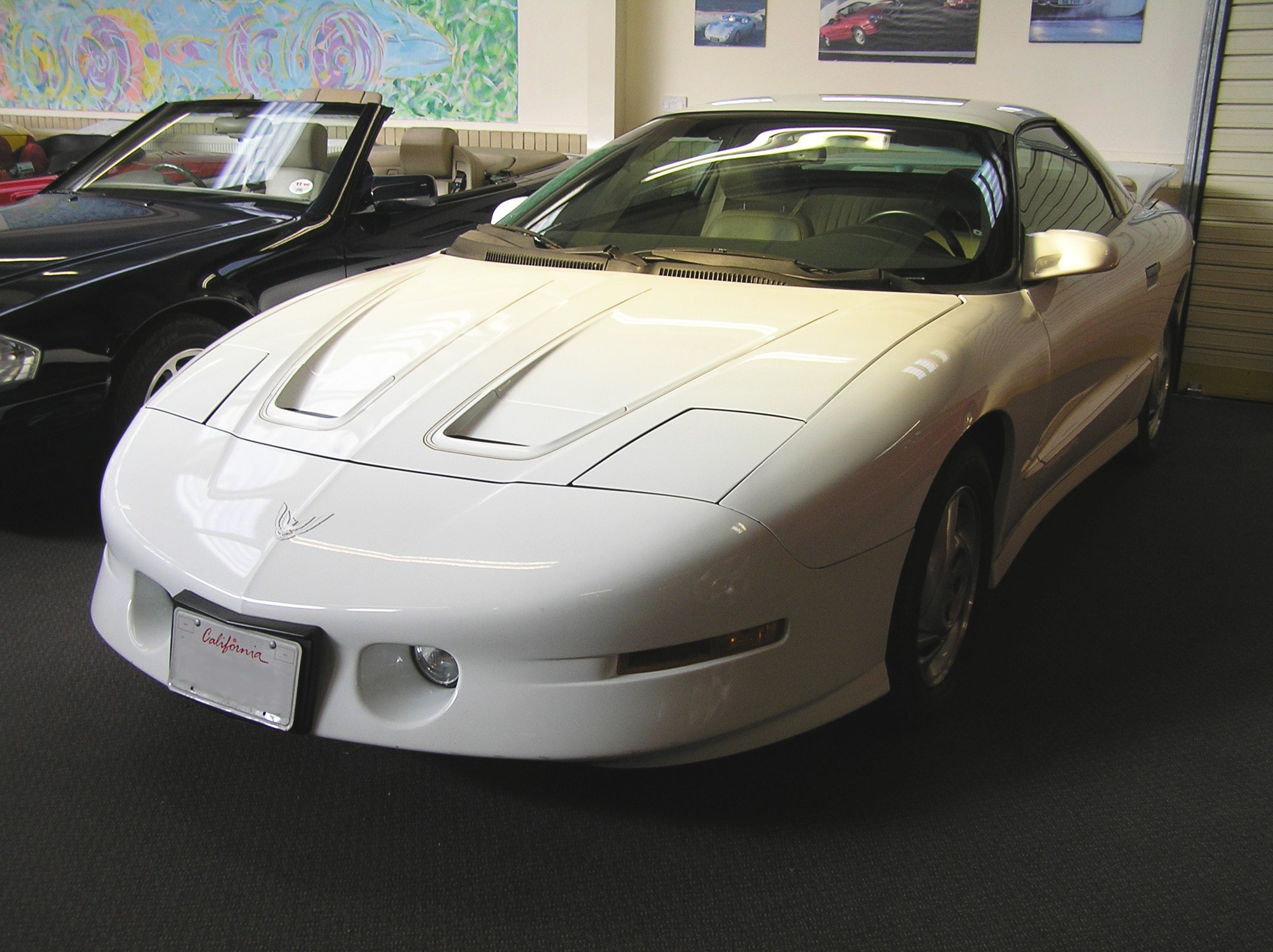 Pontiac Firebird (fourth generation), white